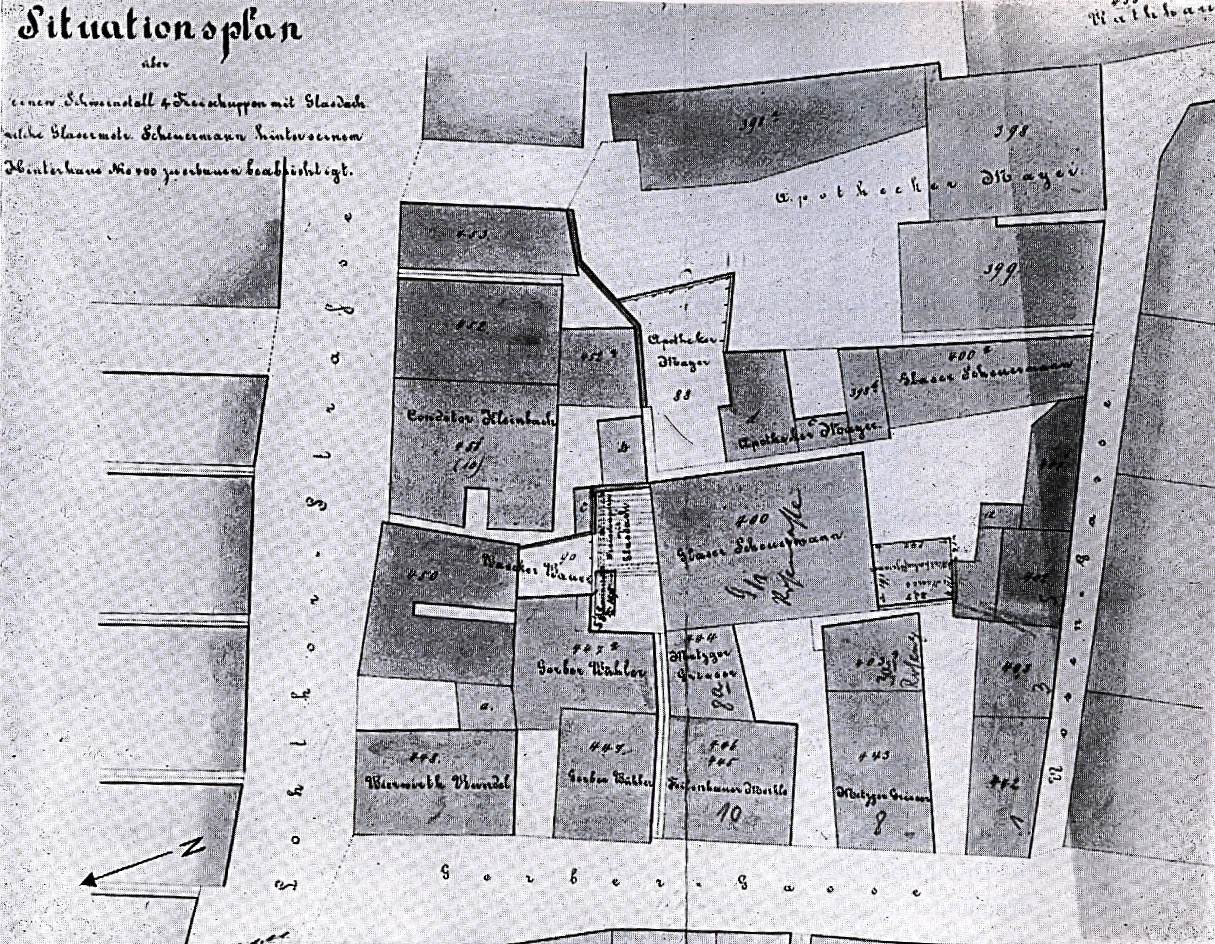 Heilbronn, Mayer'sche Apotheke zur Rose, Rosengasse 5 und 9, Situationsplan von 1869.jpg